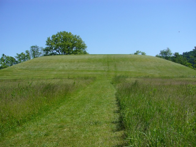 Seip Earthworks at Hopewell Culture National Historical Park, Ohio, USA